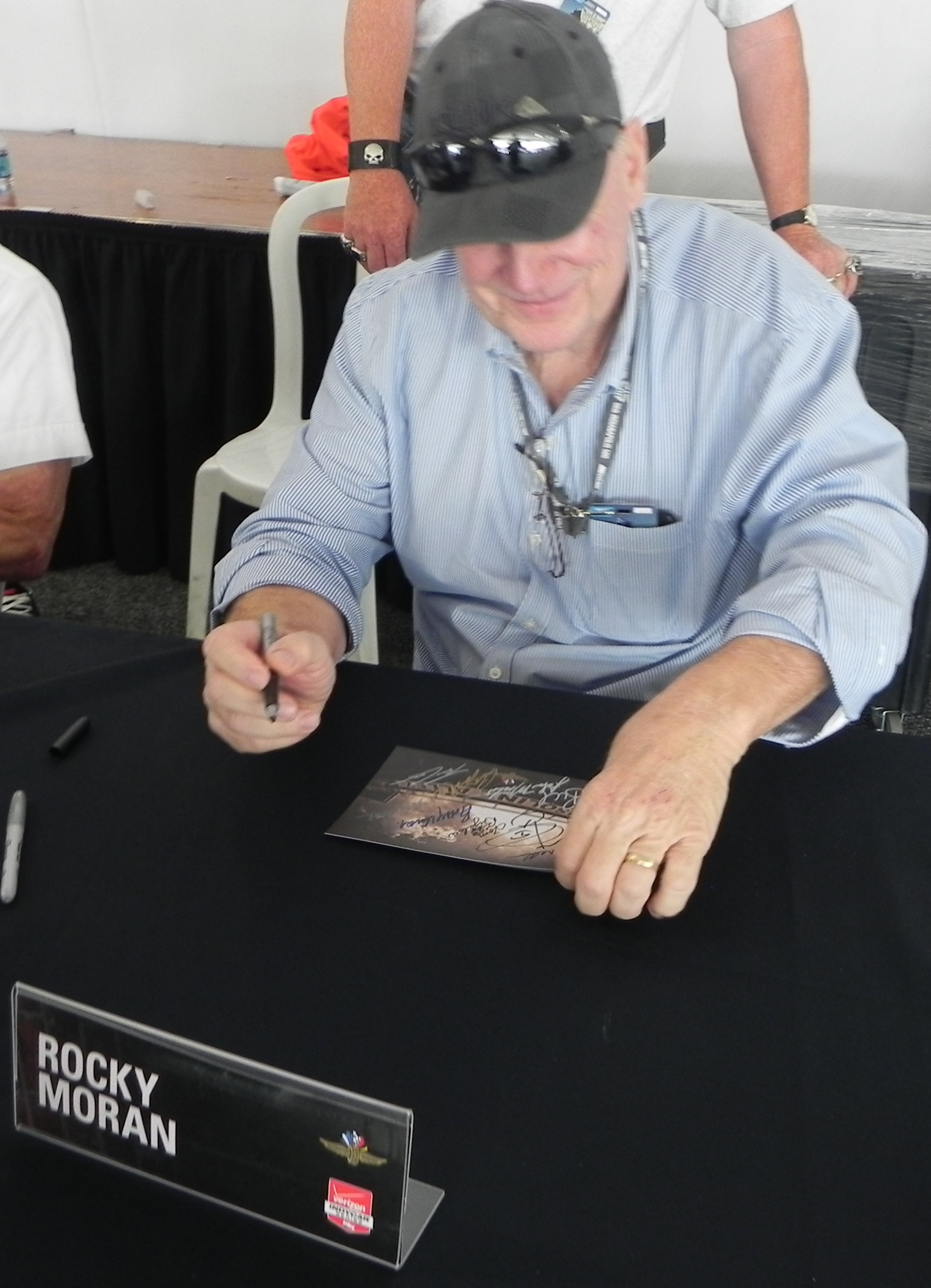 Indy500 driver Rocky Moran at the 2014 Indianapolis 500.